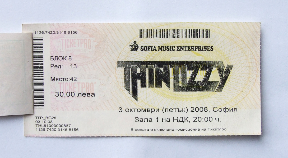 Thin Lizzy - concert ticket, Sofia, Bulgaria